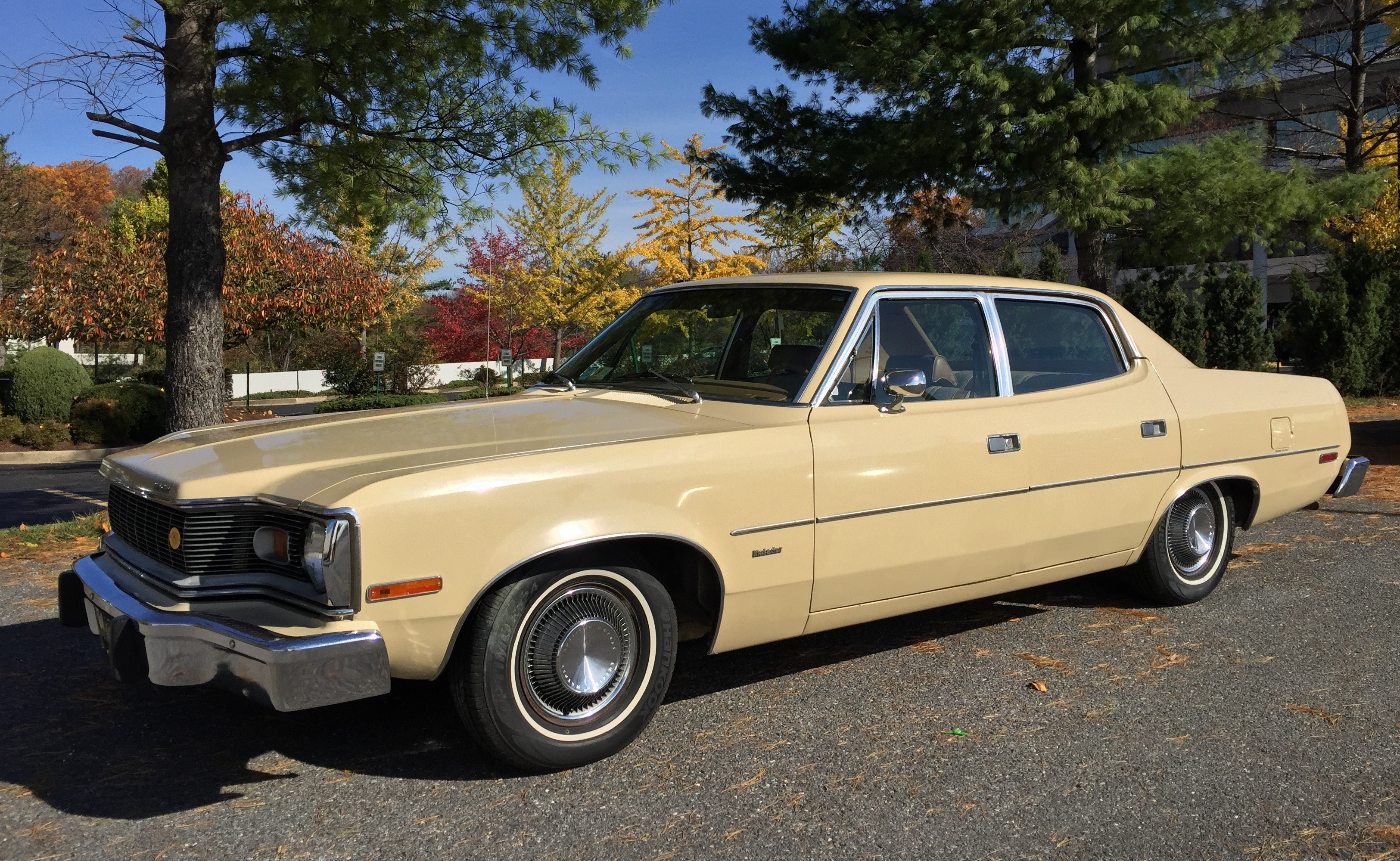 1975 AMC Matador base model four-door sedan, built in Kenosha, Wisconsin, by American Motors Corporation. This full-sized six adult passenger capacity car - riding on 118 in (2,997 mm) wheelbase with an overall length of 216 in (5,486 mm) - has its factory original Fawn Beige finish, standard woven (breathable) vinyl upholstery on its bench seat interior in beige, and also AMC's optional "Custom" wheel covers.